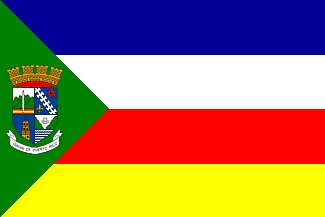 Flag of Aibonito